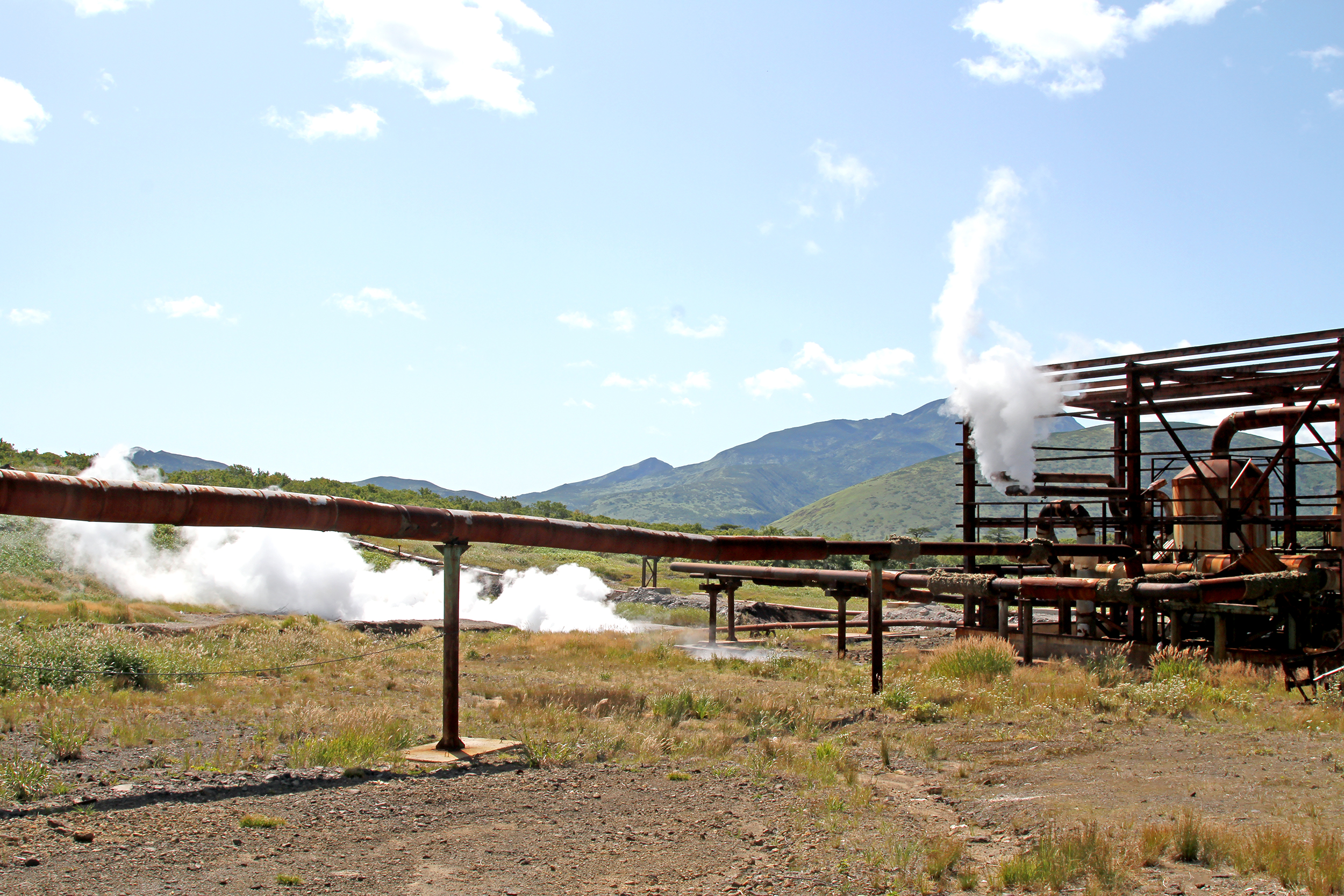 Iturup, geothermal power station